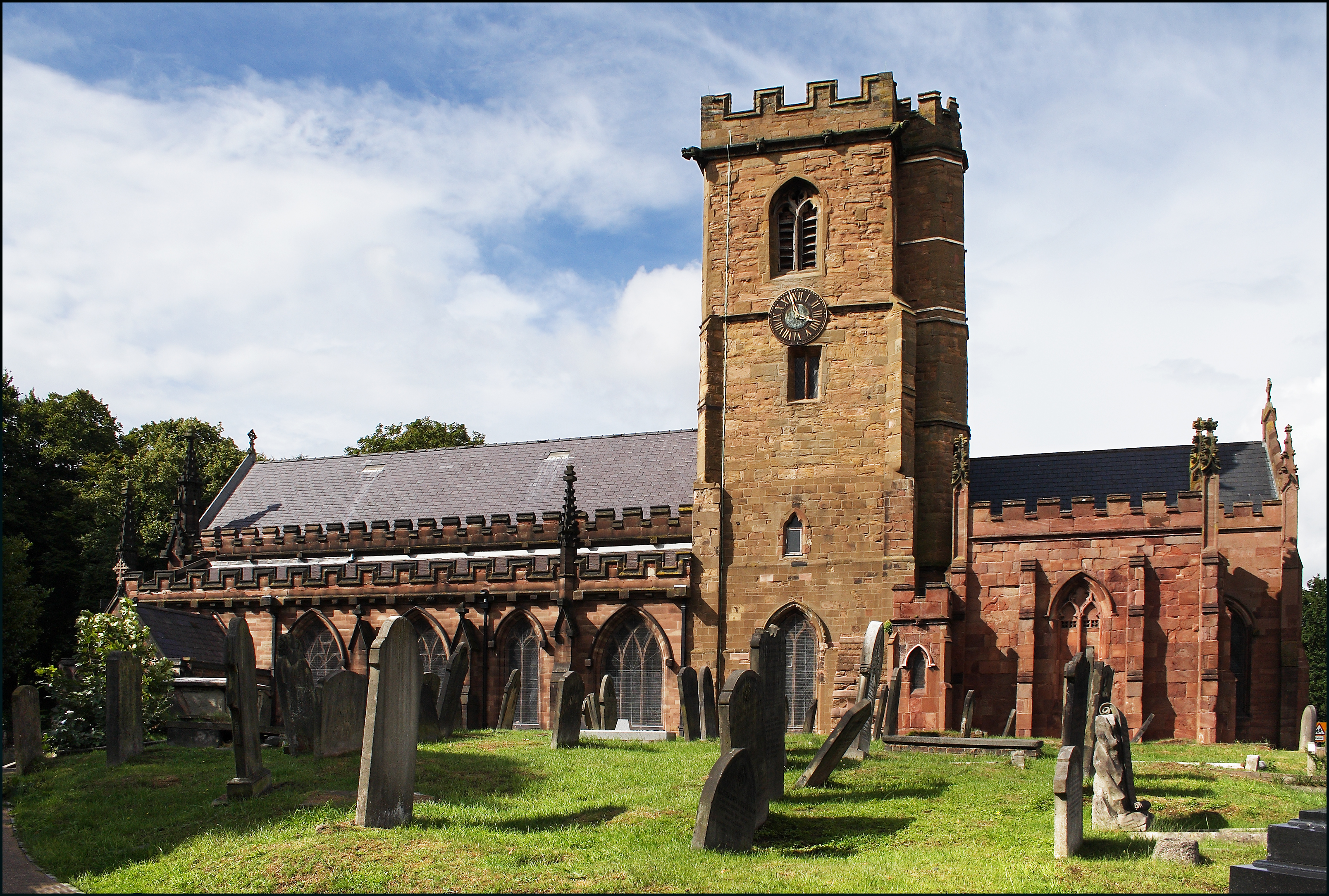 St Mary's Church, the Westminster Abbey of the Industrial Revolution